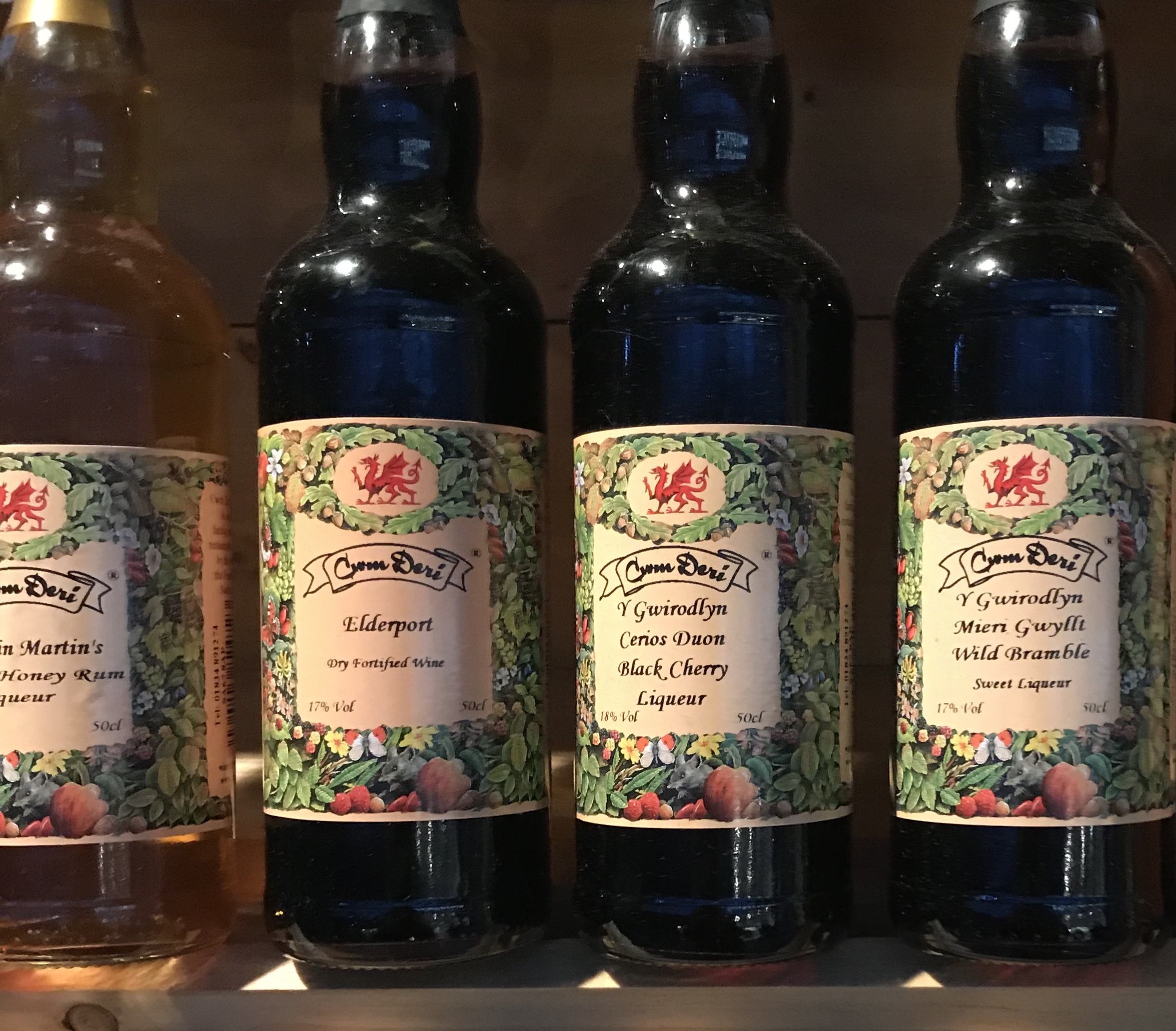 Liqueur produced by Cwm Deri vineyards in Pembrokeshire